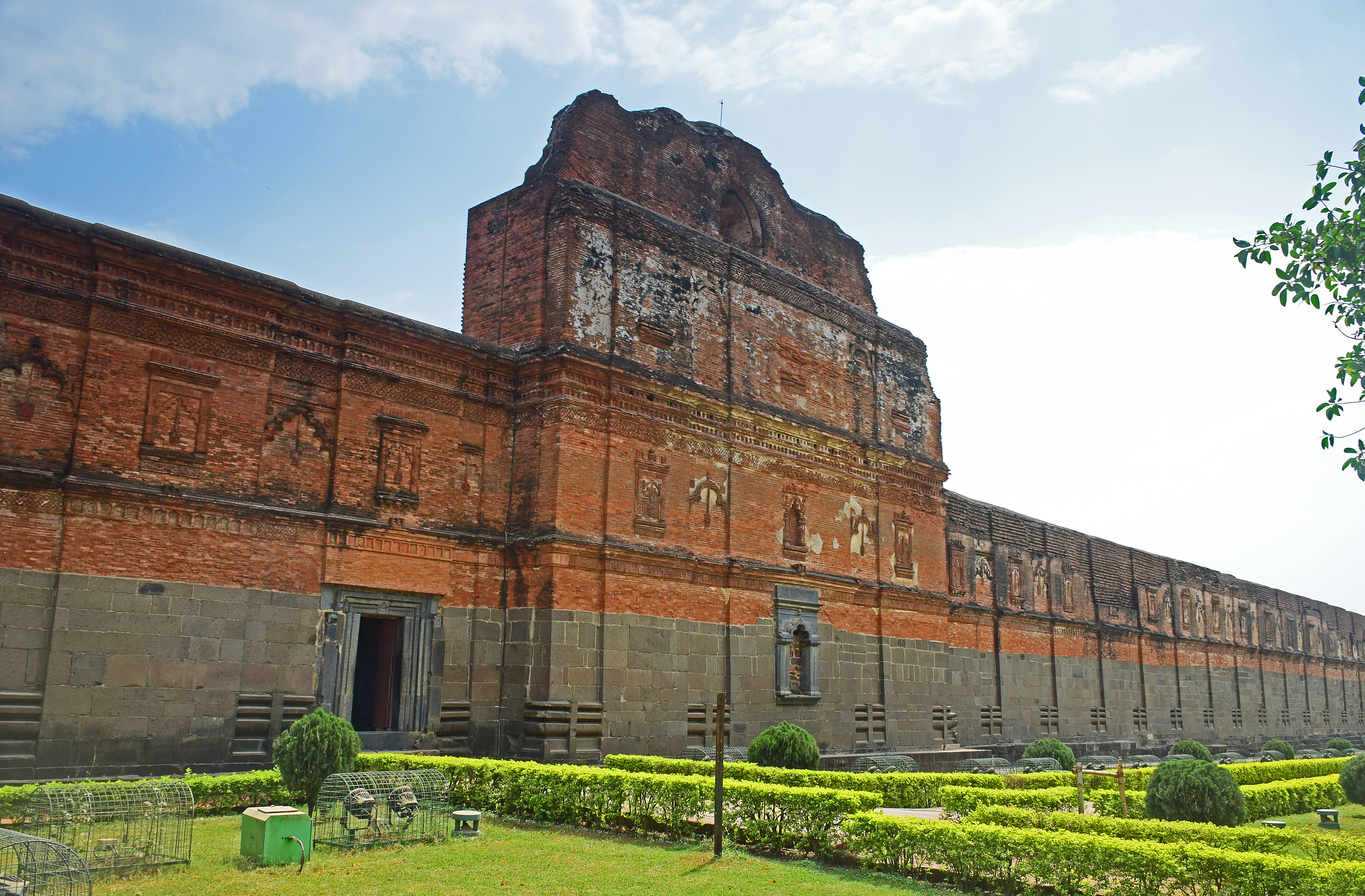 Outside view of Adina Mosque